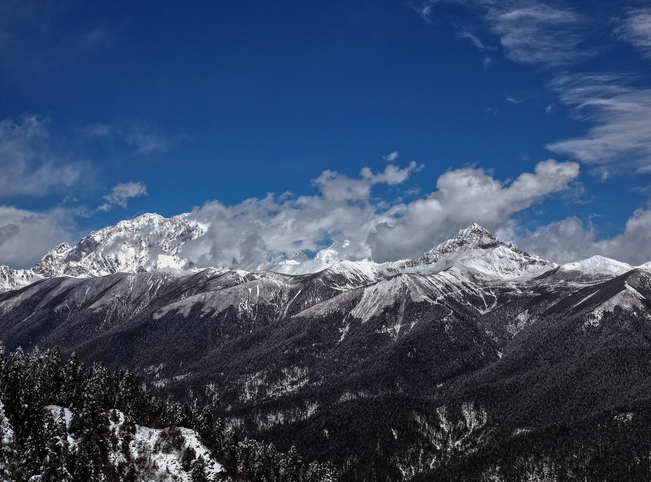 Gyala Peri